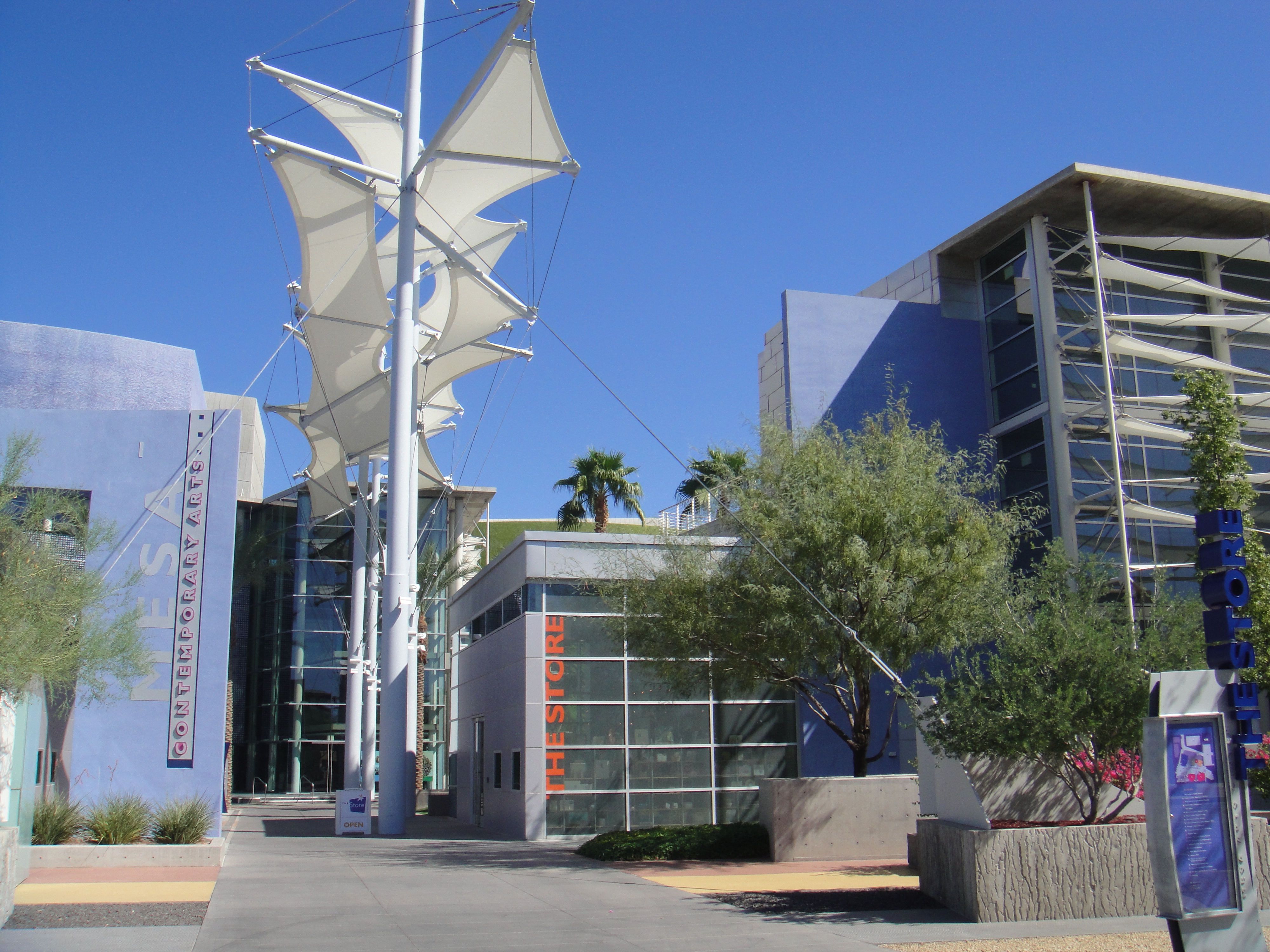 Photo of one of the entrance areas to the Mesa Arts Center